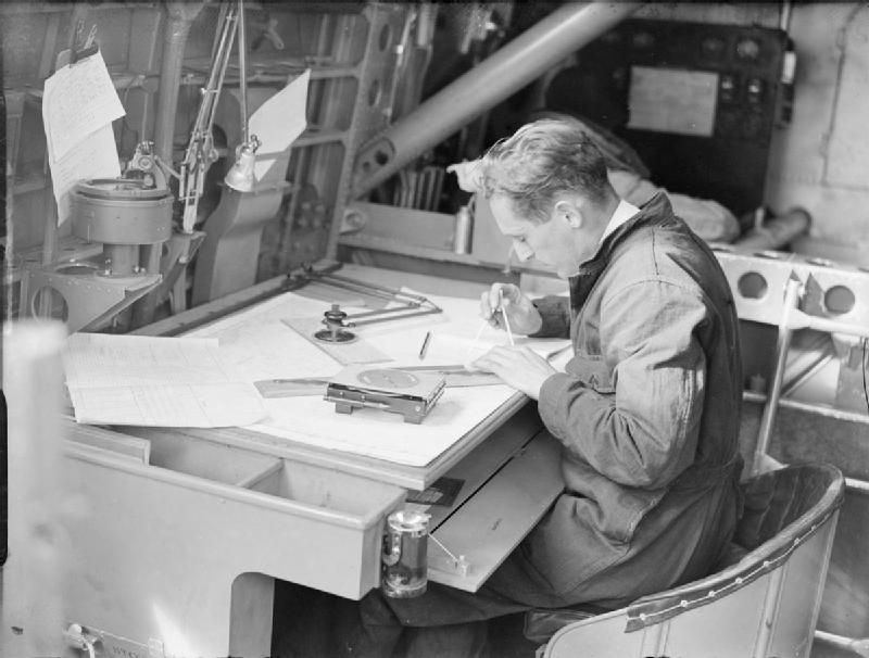 Royal Air Force Coastal Command, 1939-1945. The navigator of a Short Sunderland Mark I of No. 10 Squadron RAAF, plots a change of course at his position during a flight..